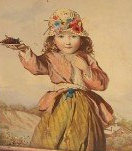 Chromolithograph: "Dotty Dimple." After original picture by Mrs. Elizabeth Murray. (Boston: Published by Williams & Everett, 219 Washington Street, Boston, 1869)